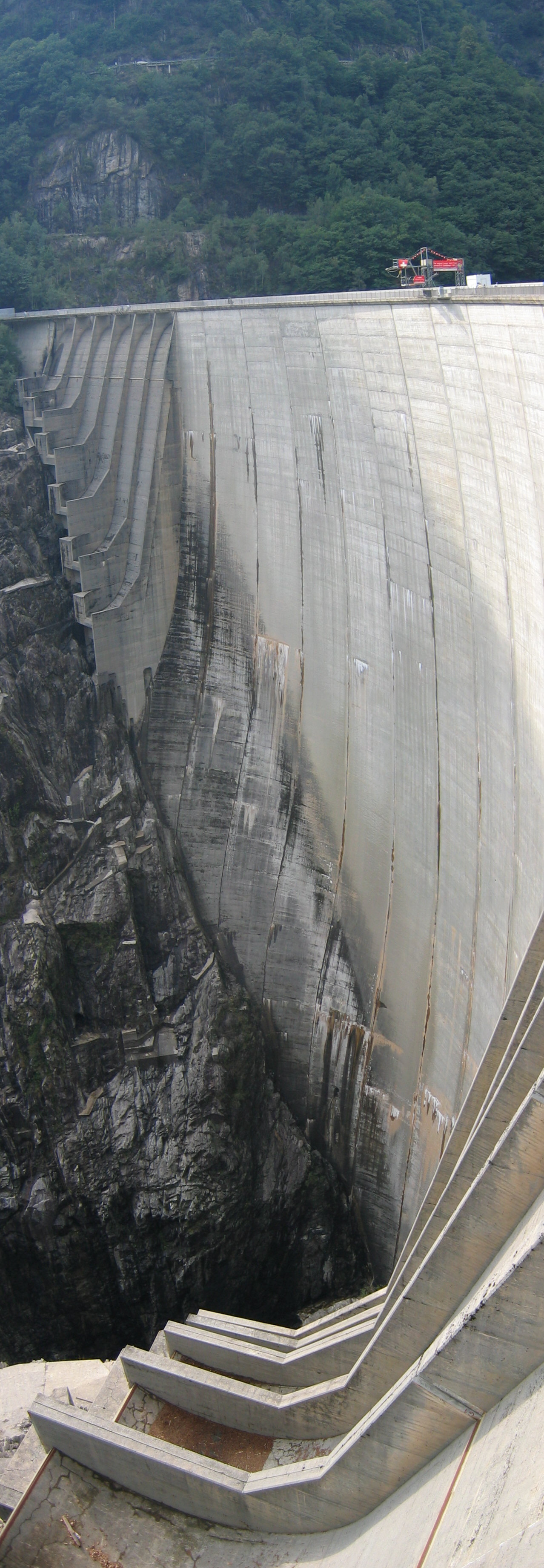 The Contra Dam at Lago di Vogorno on the Verzasca river in Switzerland. In the background atop the dam is the bungee jumping tower and in the foreground the dam's overflows can be seen.